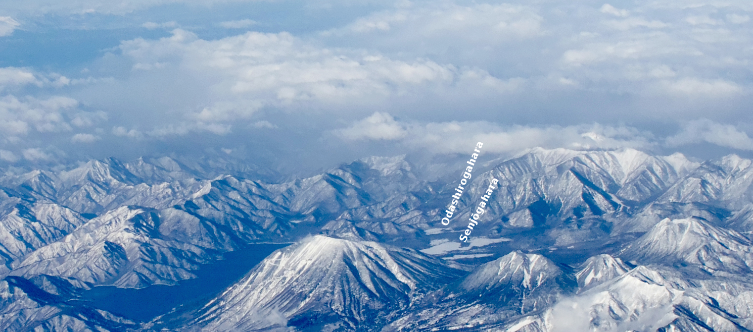 Japan: aerial view of Senjōgahara and Odashirogahara in the Nikko mountain range (Tochigi and Gunma prefectures).